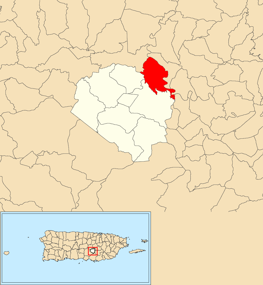 Plata, Aibonito, Puerto Rico locator map